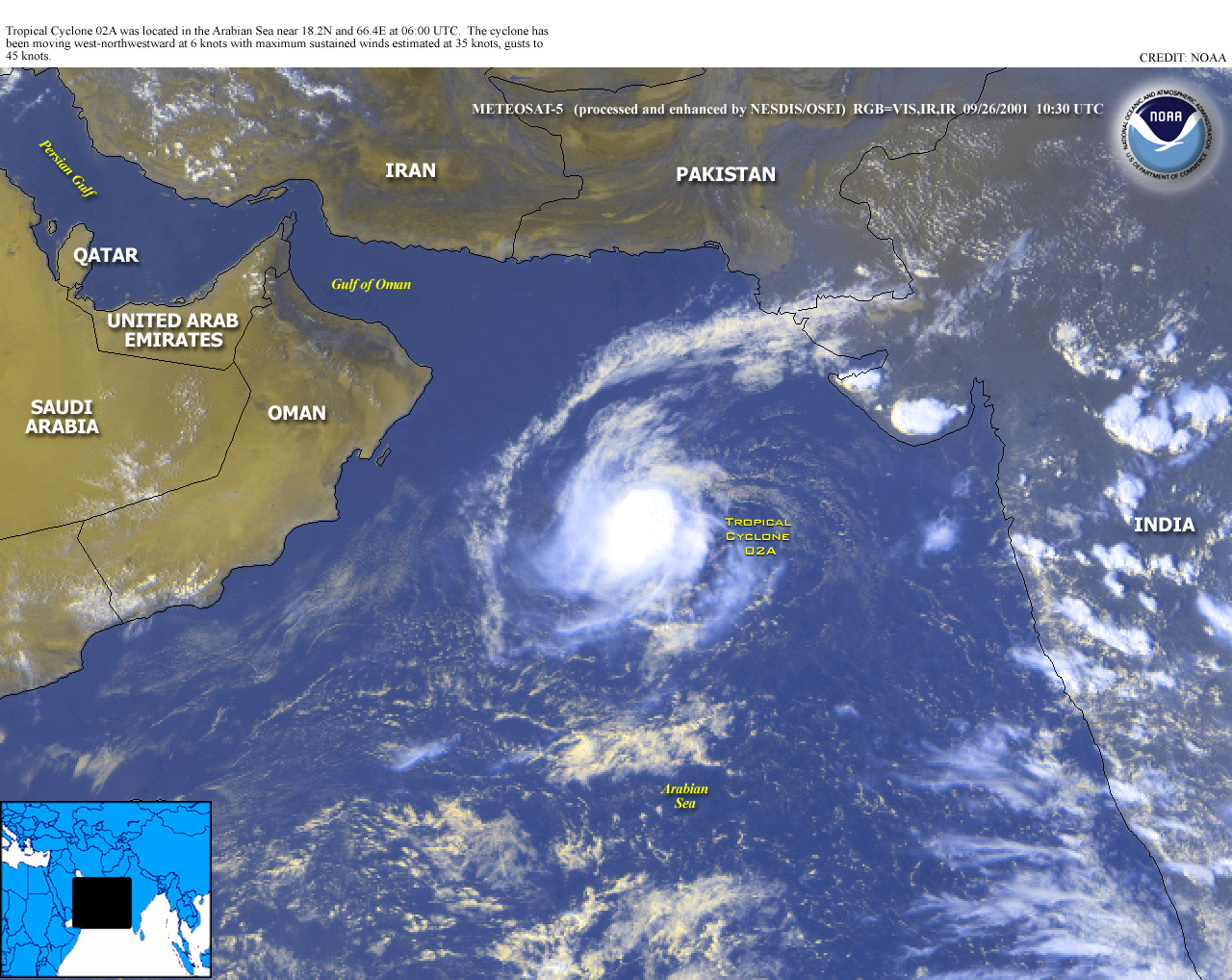 Tropical Cyclone 02A was located in the Arabian Sea near 18.2N and 66.4E at 06:00 UTC. The cyclone has been moving west-northwestward at 6 knots with maximum sustained winds estimated at 35 knots, gusts to 45 knots.